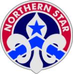 644th Regional Support Group's DUIC